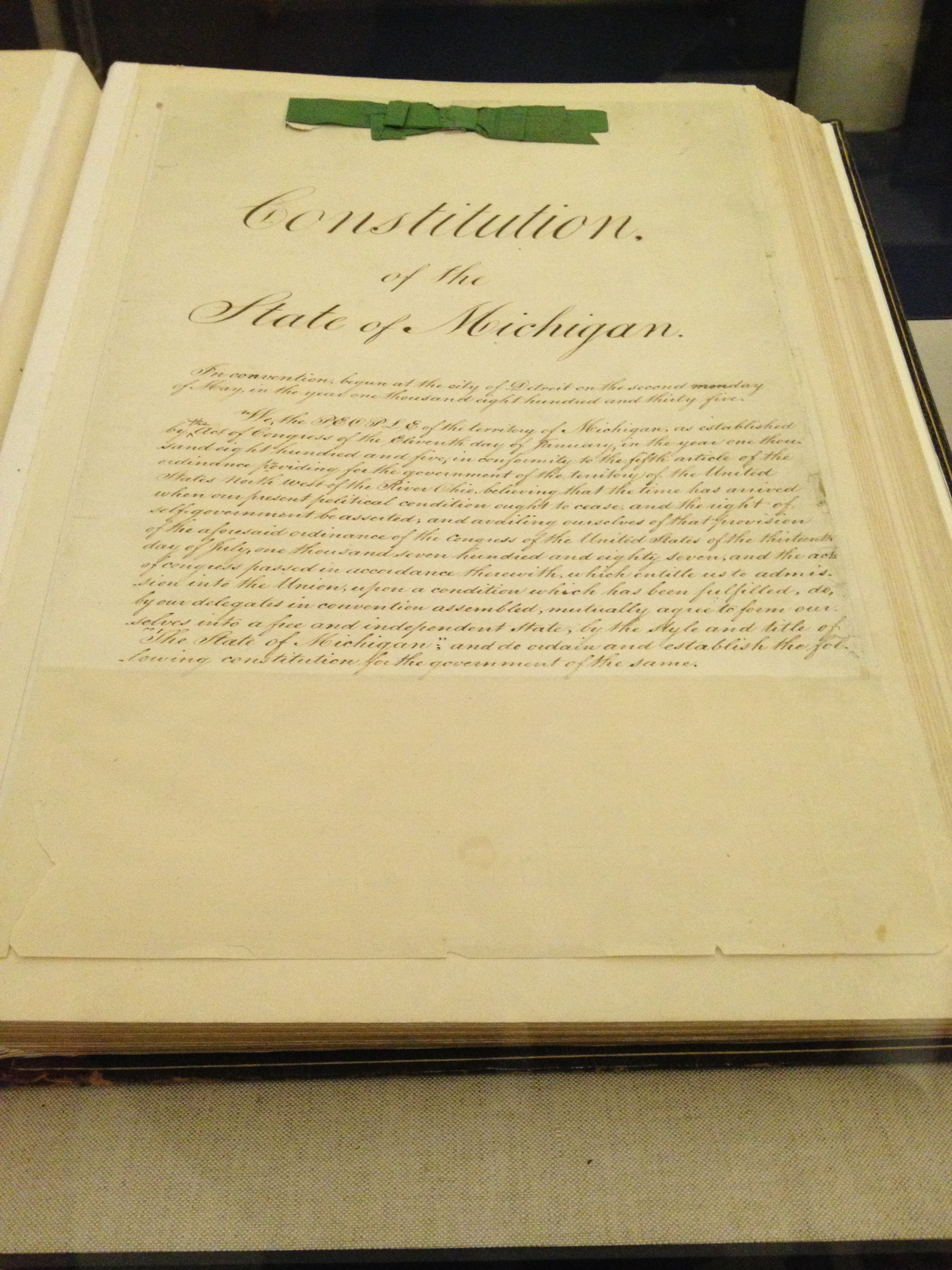 The Michigan Constitution of 1835, on display at the Michigan Historical Museum, January 26, 2013.